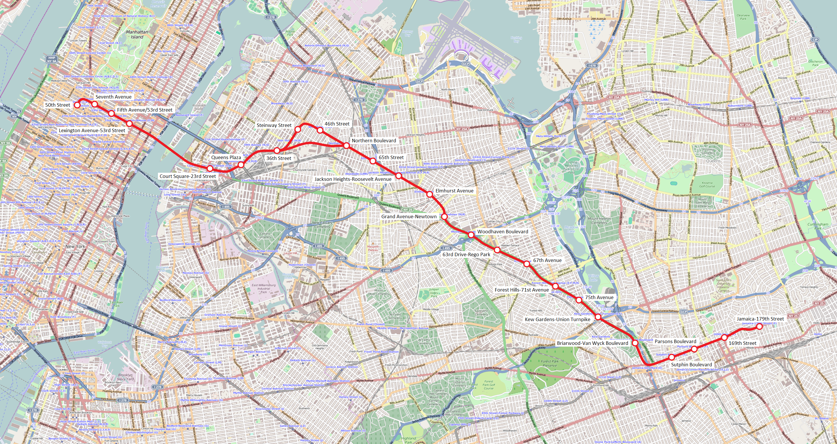 IND Queens Boulevard Line map